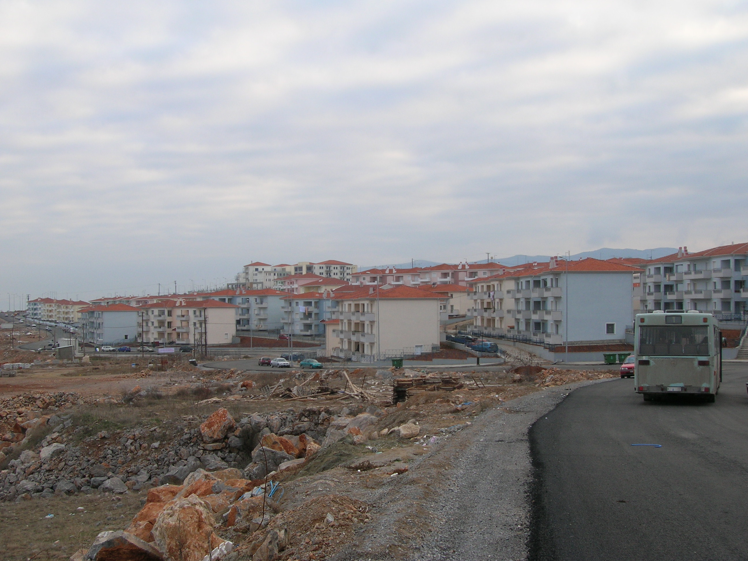 Kozani Zone of Alternate Urban Planning (ZEP)